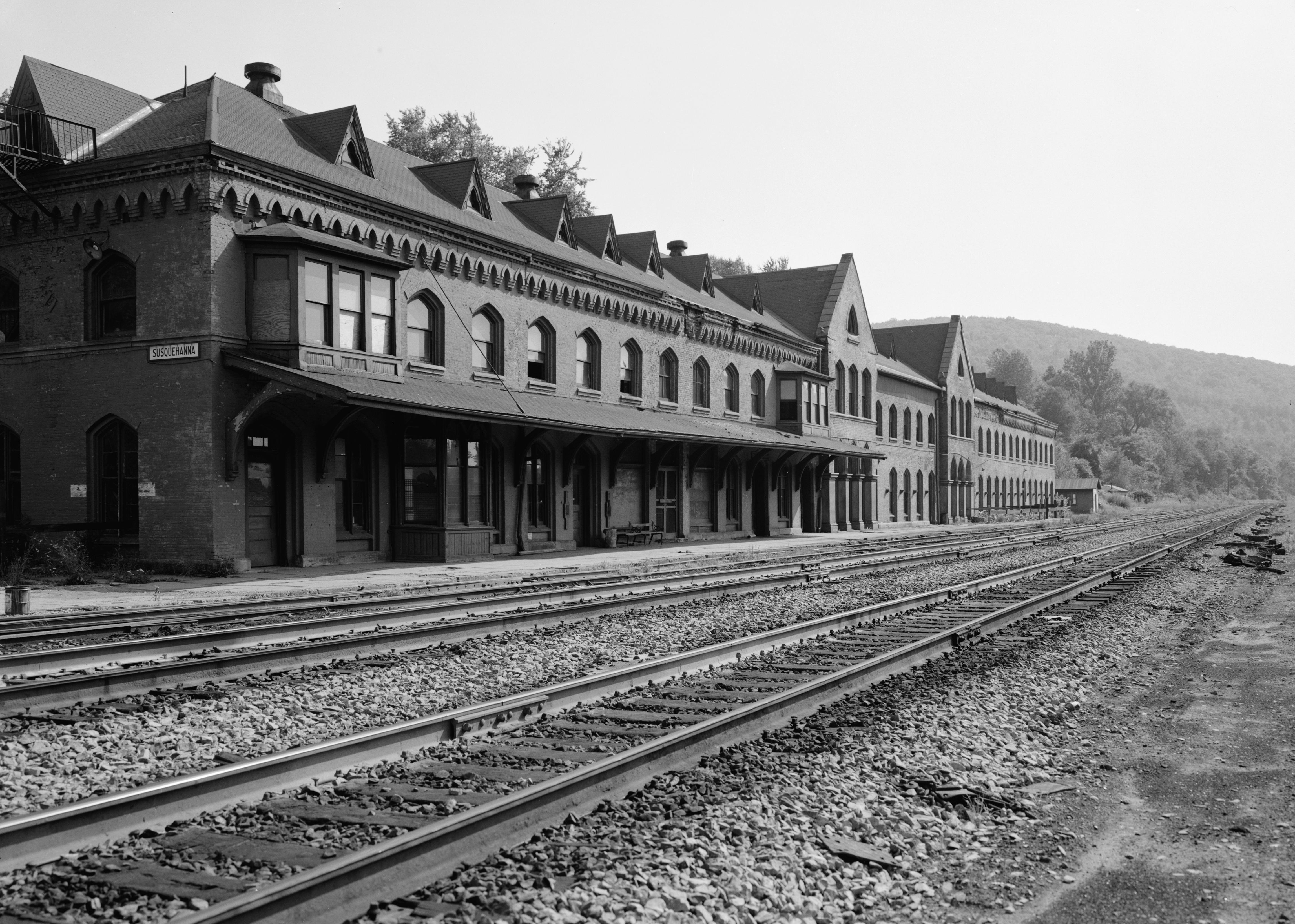 Northern side of the Erie Railroad Station in Susquehanna, Pennsylvania, United States. Built in 1865, the station is listed on the National Register of Historic Places The station also included a large hotel called Starrucca House.